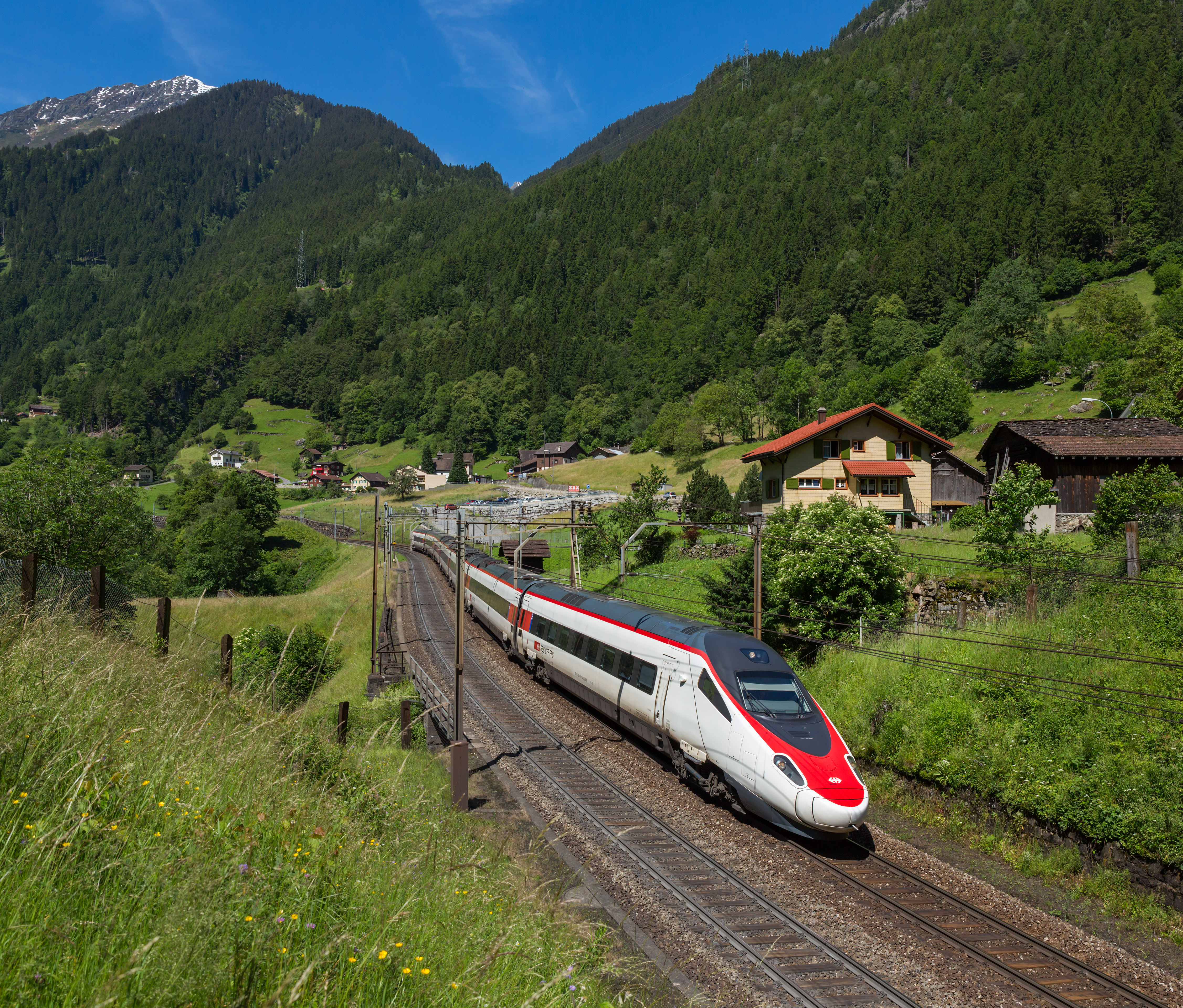 SBB ETR 610 at Intschi, Switzerland.